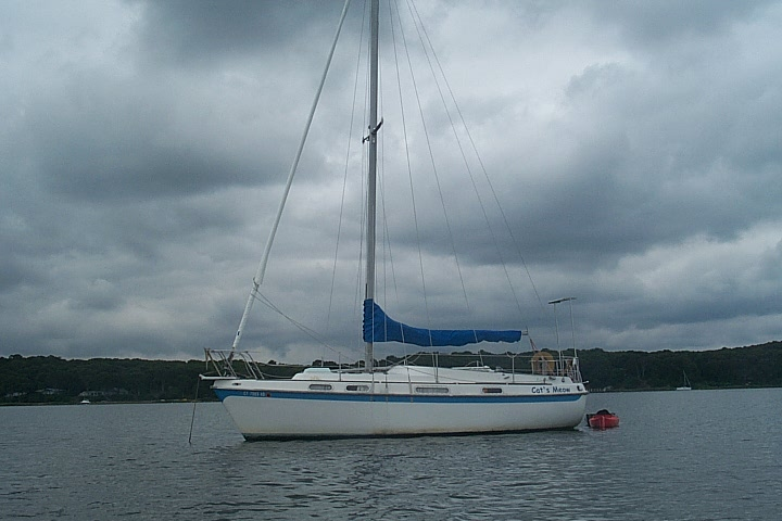 A Morgan Out Island 28 at anchor in Three Mile Harbor, New York.